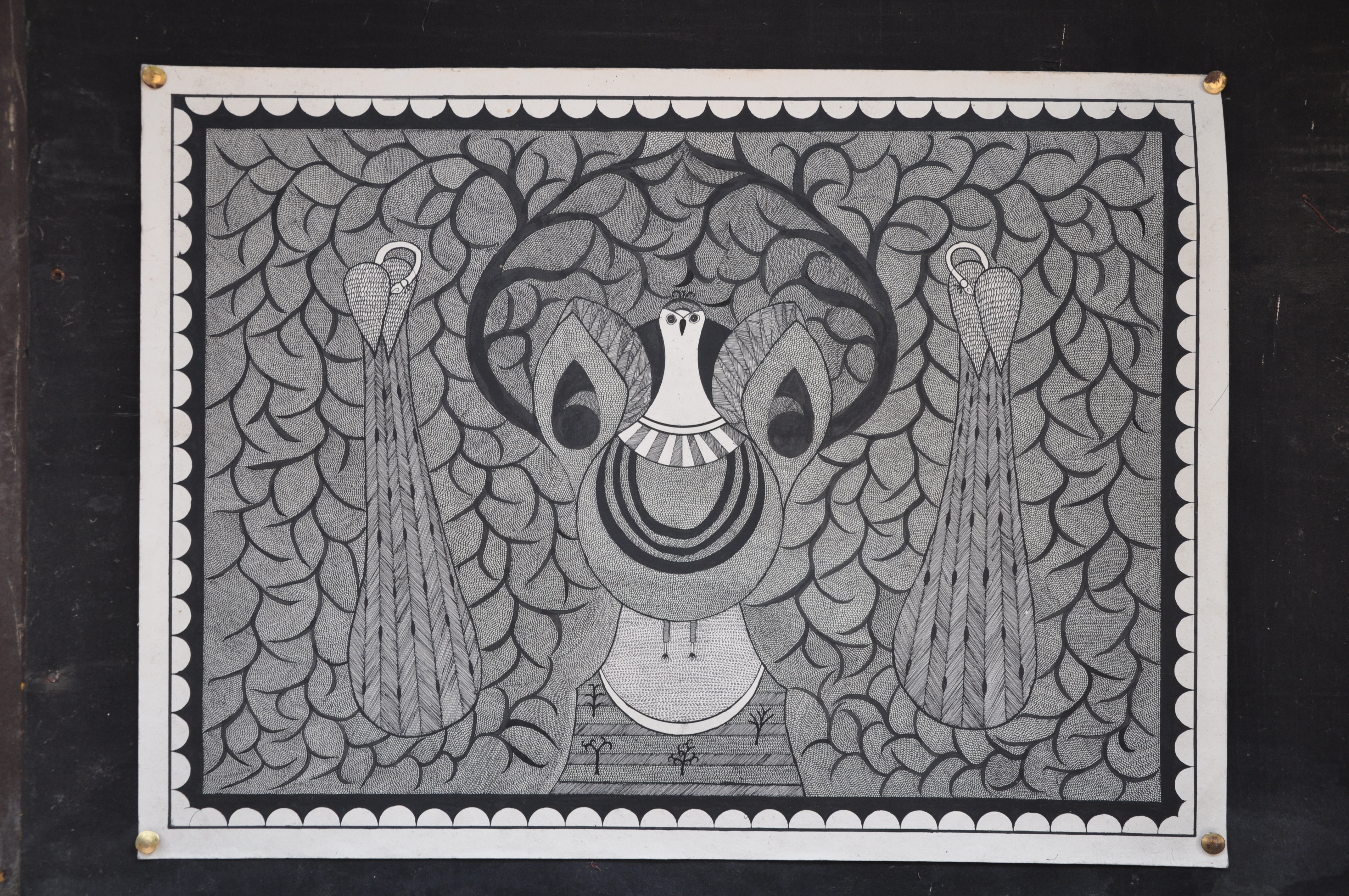 crafts museum, new delhi